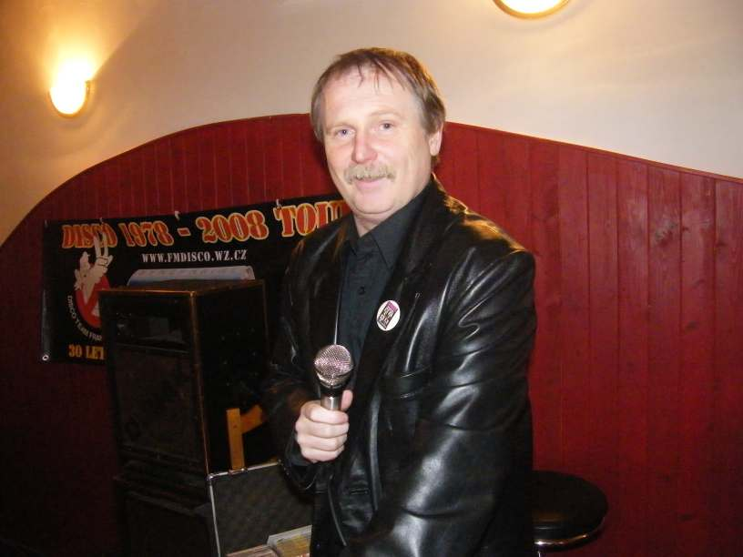 DJ. František Mareš